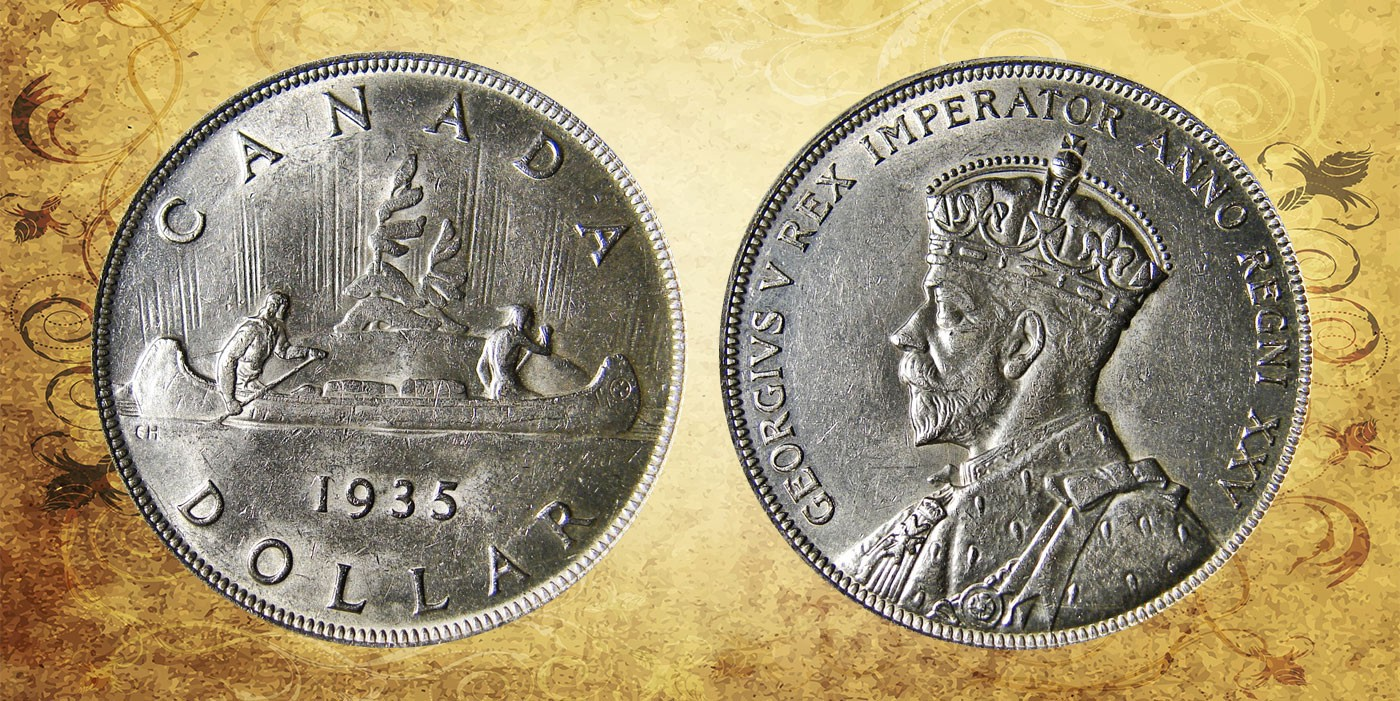 Canadian Voyageur dollar, first minted in 1935.